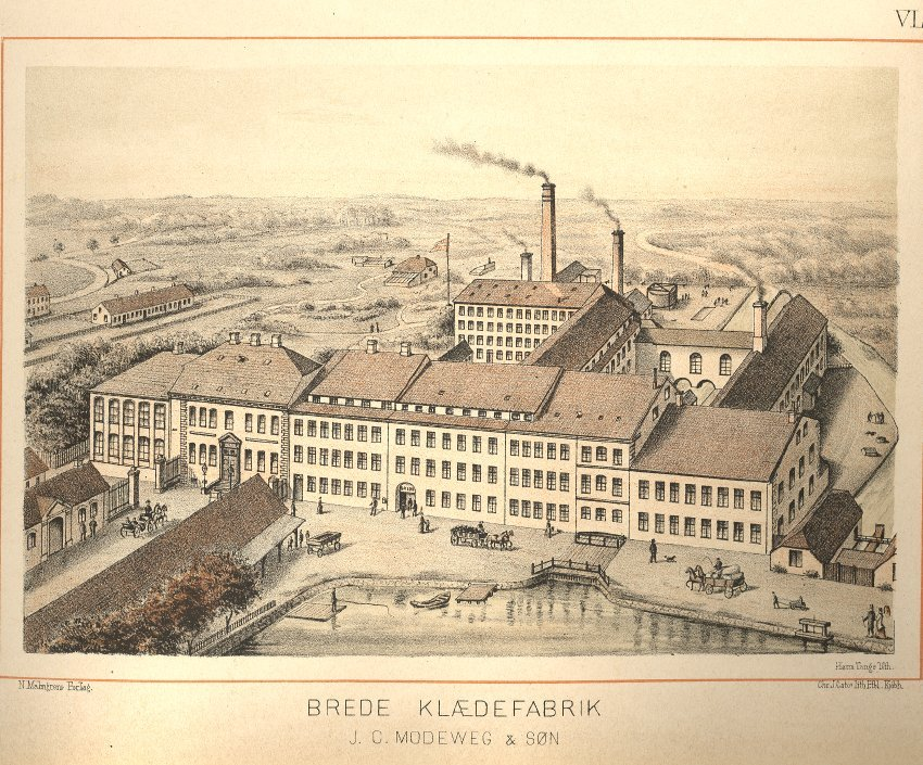 Brede Klædefabrik